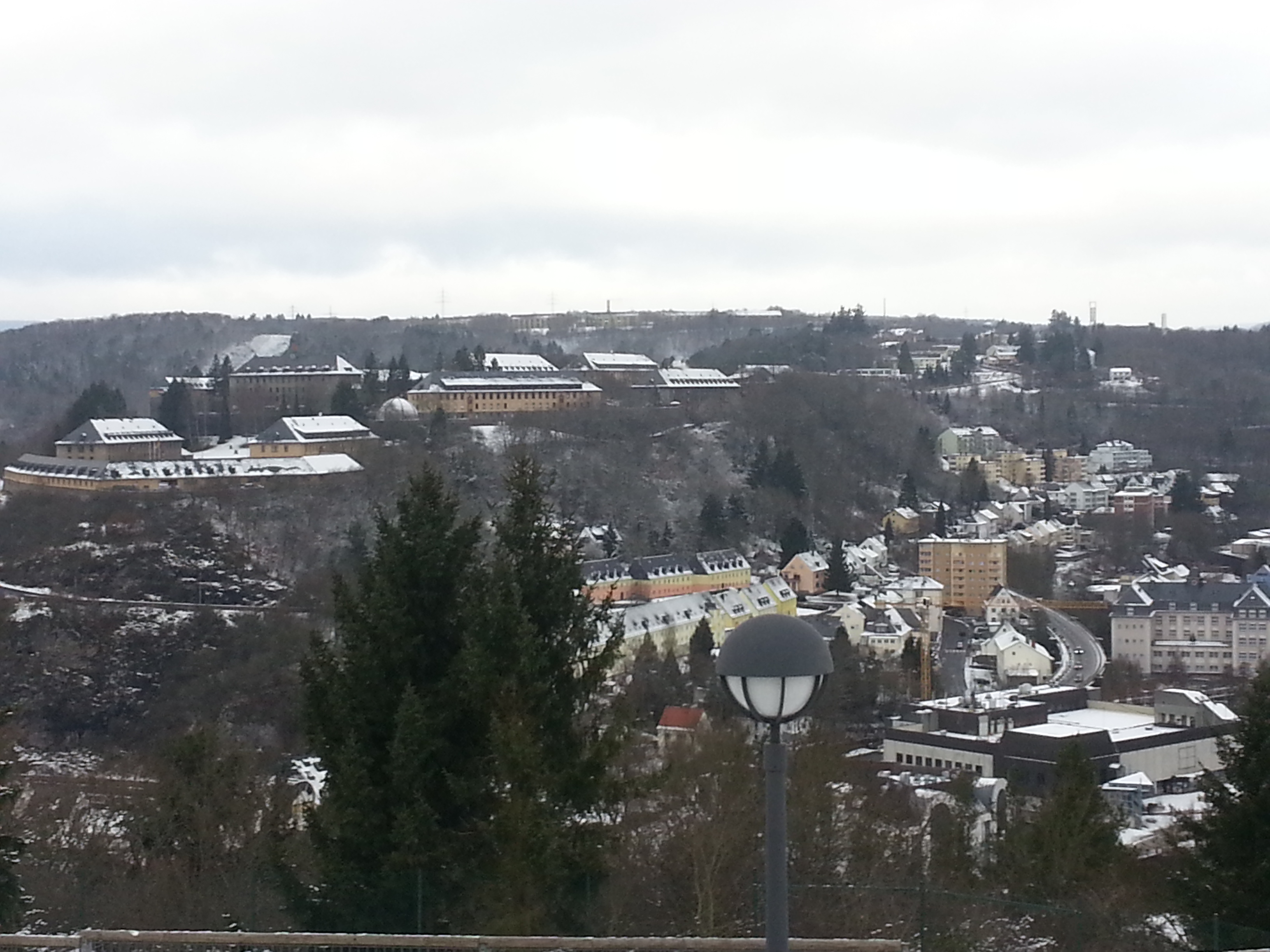 Klotzberg barracks and artillery school Idar-Oberstein in winter